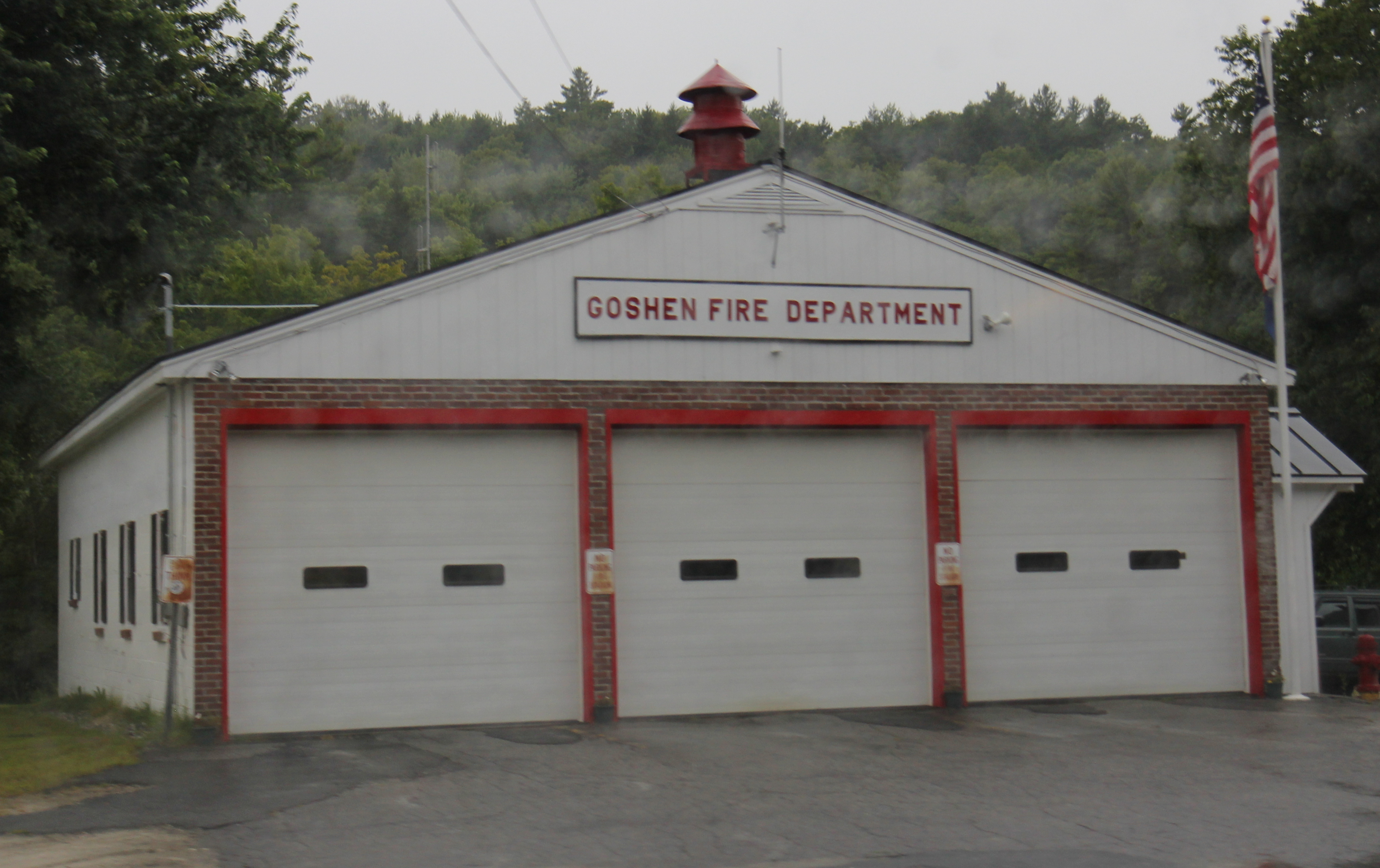 The fire station in Goshen, New Hampshire.